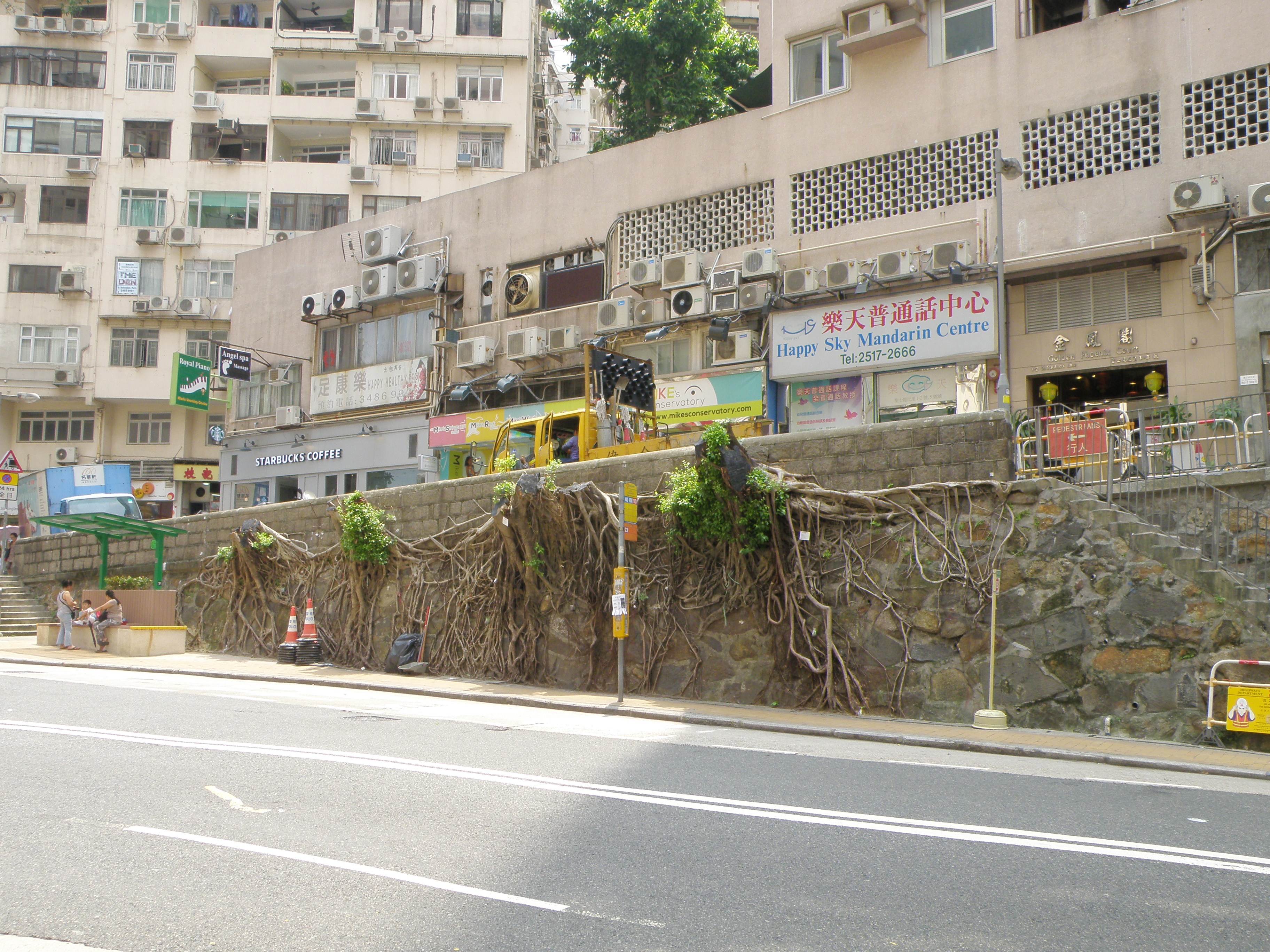 Bonham Road in Sai Ying Pun, Hong Kong.